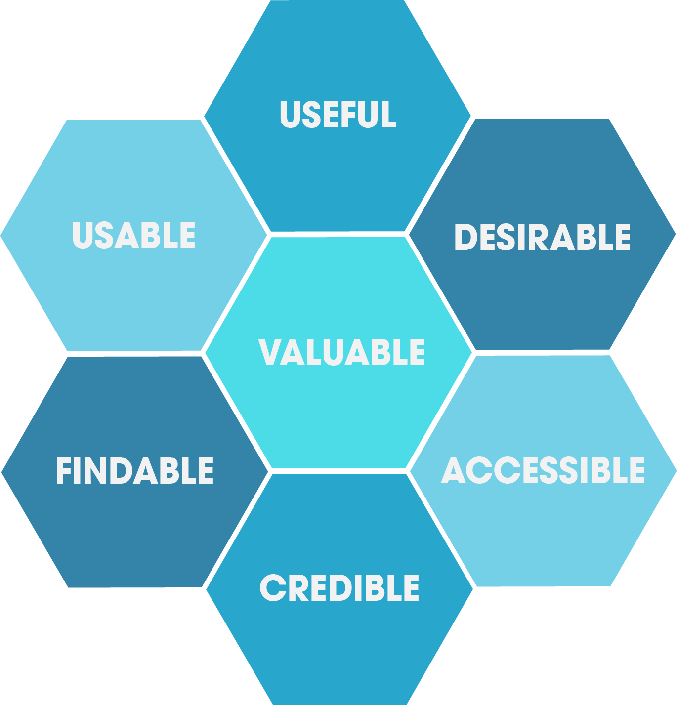 Peter Morville is a designer and information architect who has been working in this field since 1994. He has held positions at top companies like Google and Gopher. This is his representation of what makes a good user experience.